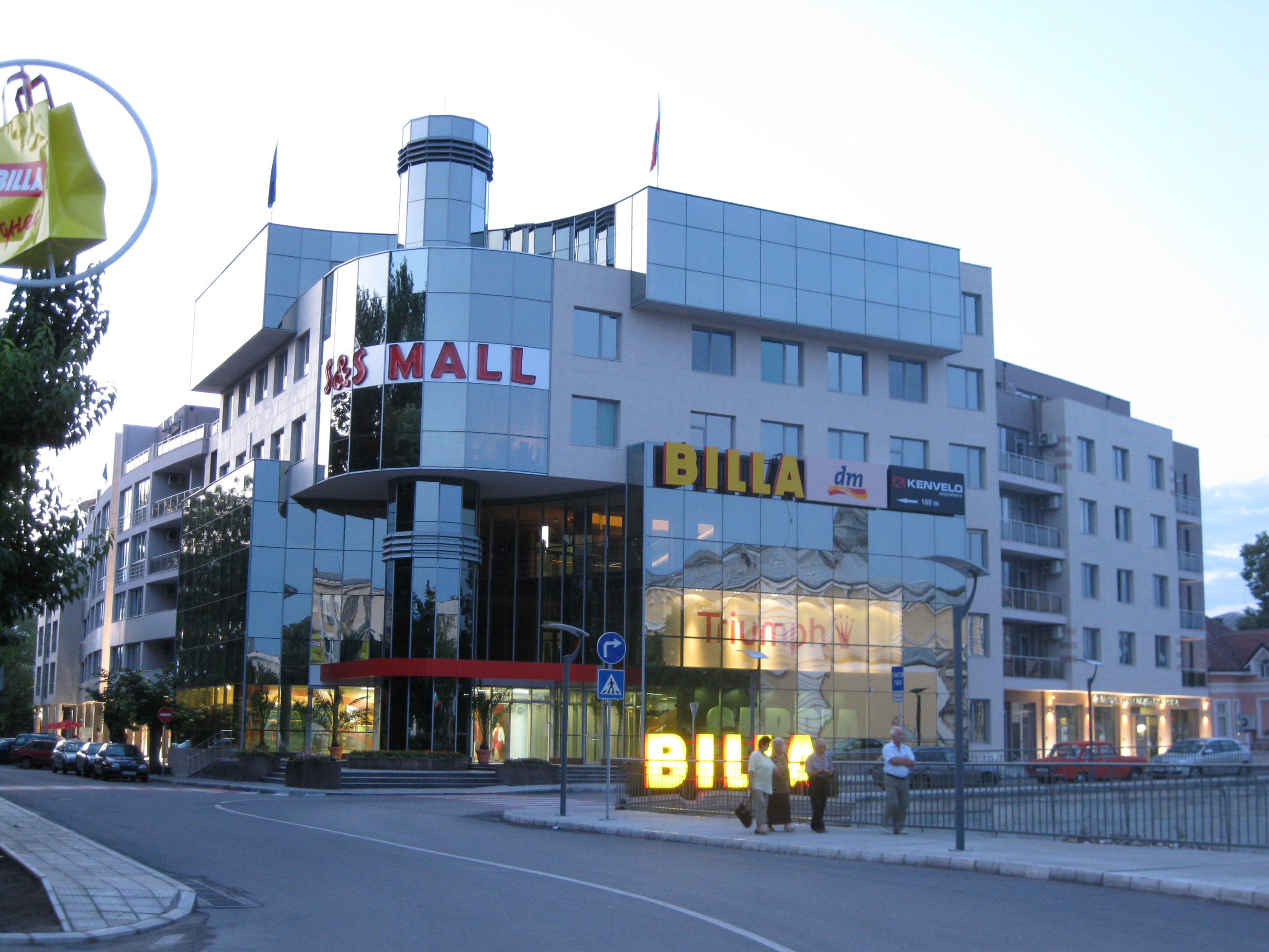 The first Mall in Silistra, Bulgaria